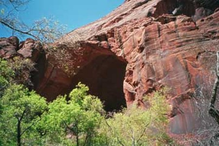 Wrather Arch — a natural arch in Wrather Canyon, a branch of Paria Canyon in Coconino County, northern Arizona. Located within the Paria Canyon-Vermilion Cliffs Wilderness area of the BLM−Bureau of Land Management.